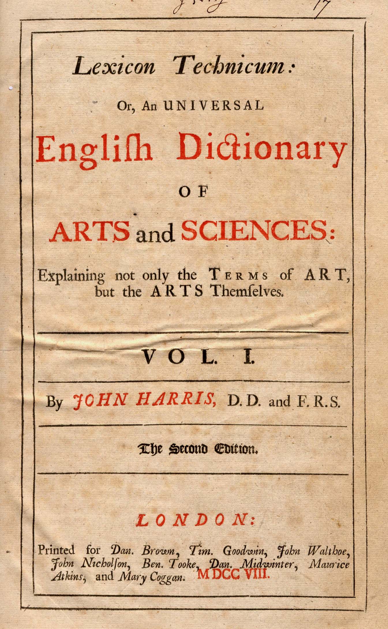 self-made photograph of non-copyright title page of original copy of 1708 (2nd edn) Lexicon Technicum by John Harris DD (first published 1704)